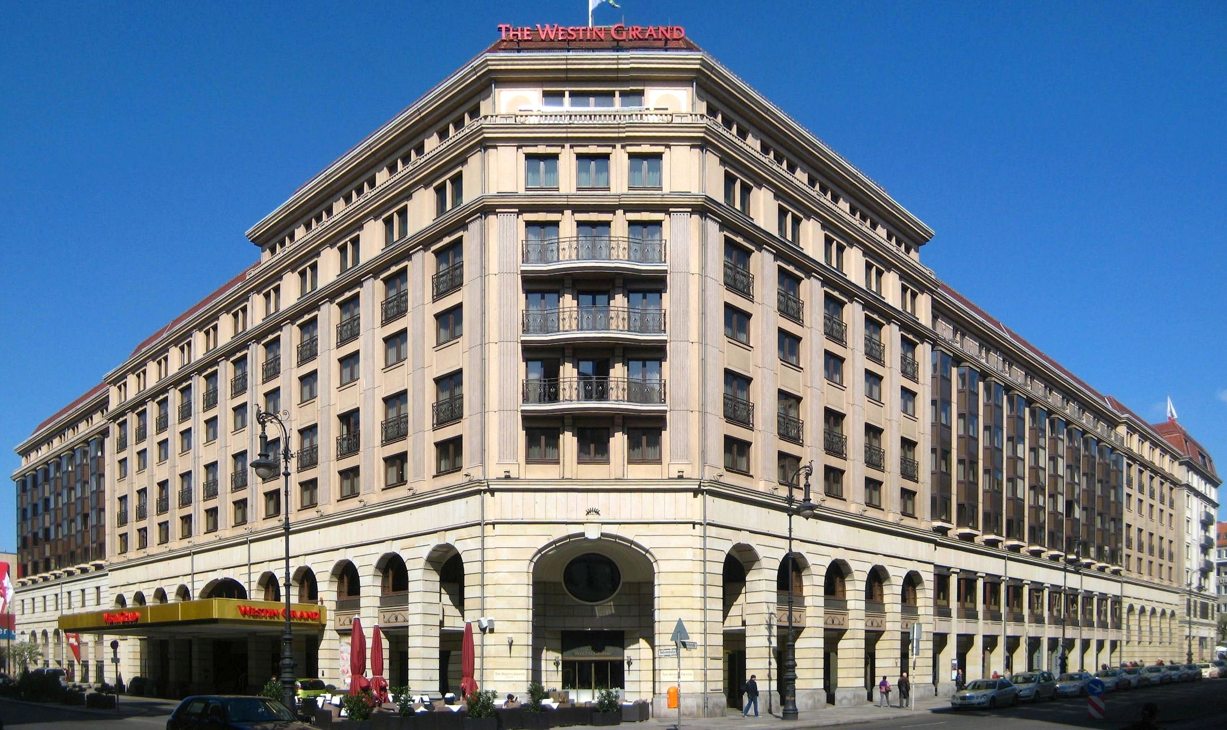 The Hotel Westin Grand Berlin at Friedrichstraße No. 157-164, corner of Behrenstraße (on the left), in Berlin-Mitte.